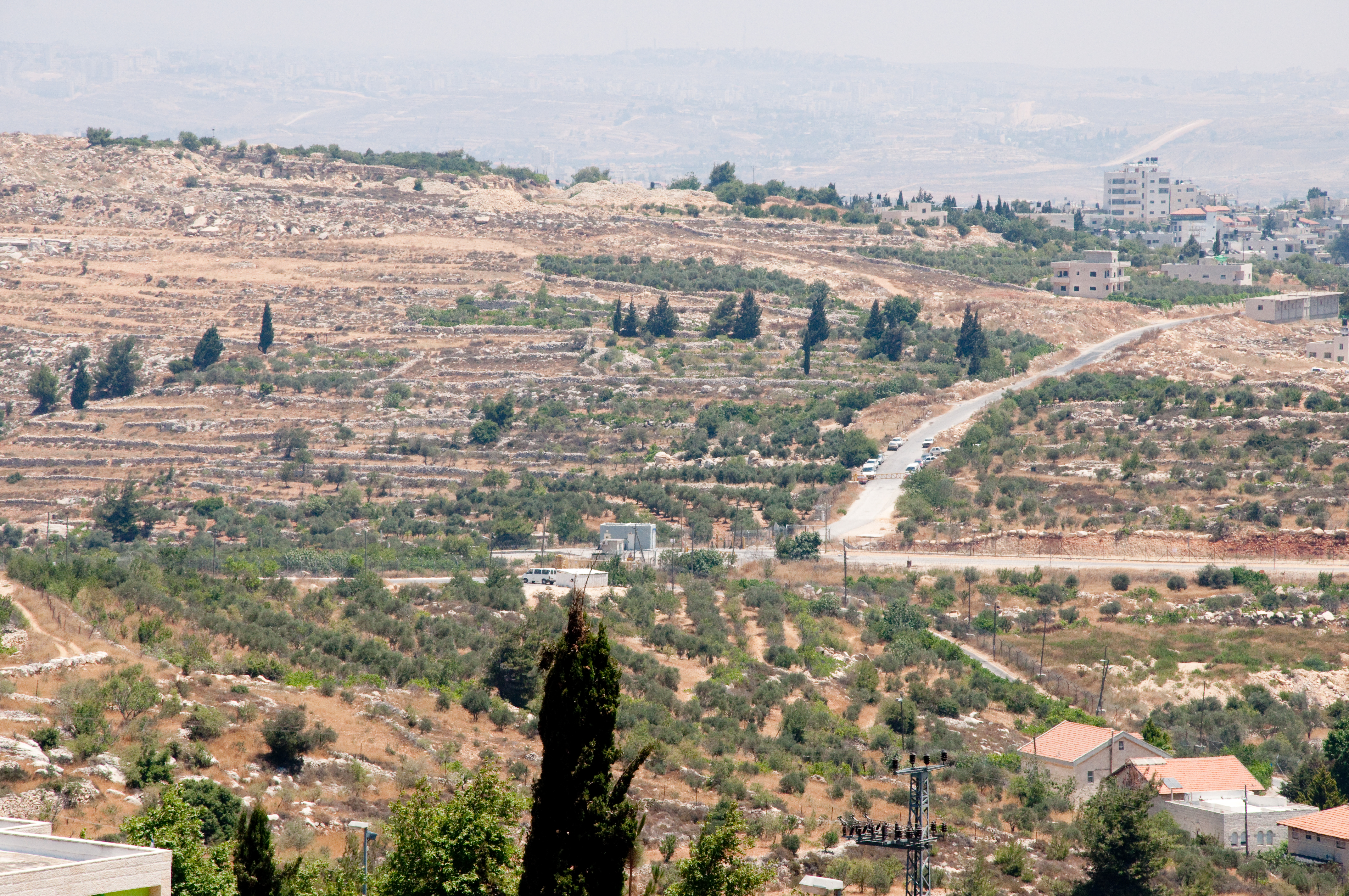 Photographed from the watching tower at the Harel Brigade memorial site